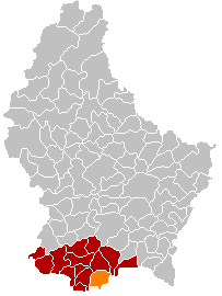 Own edit of Kanton Esch-sur-AlzetteLocatie.png